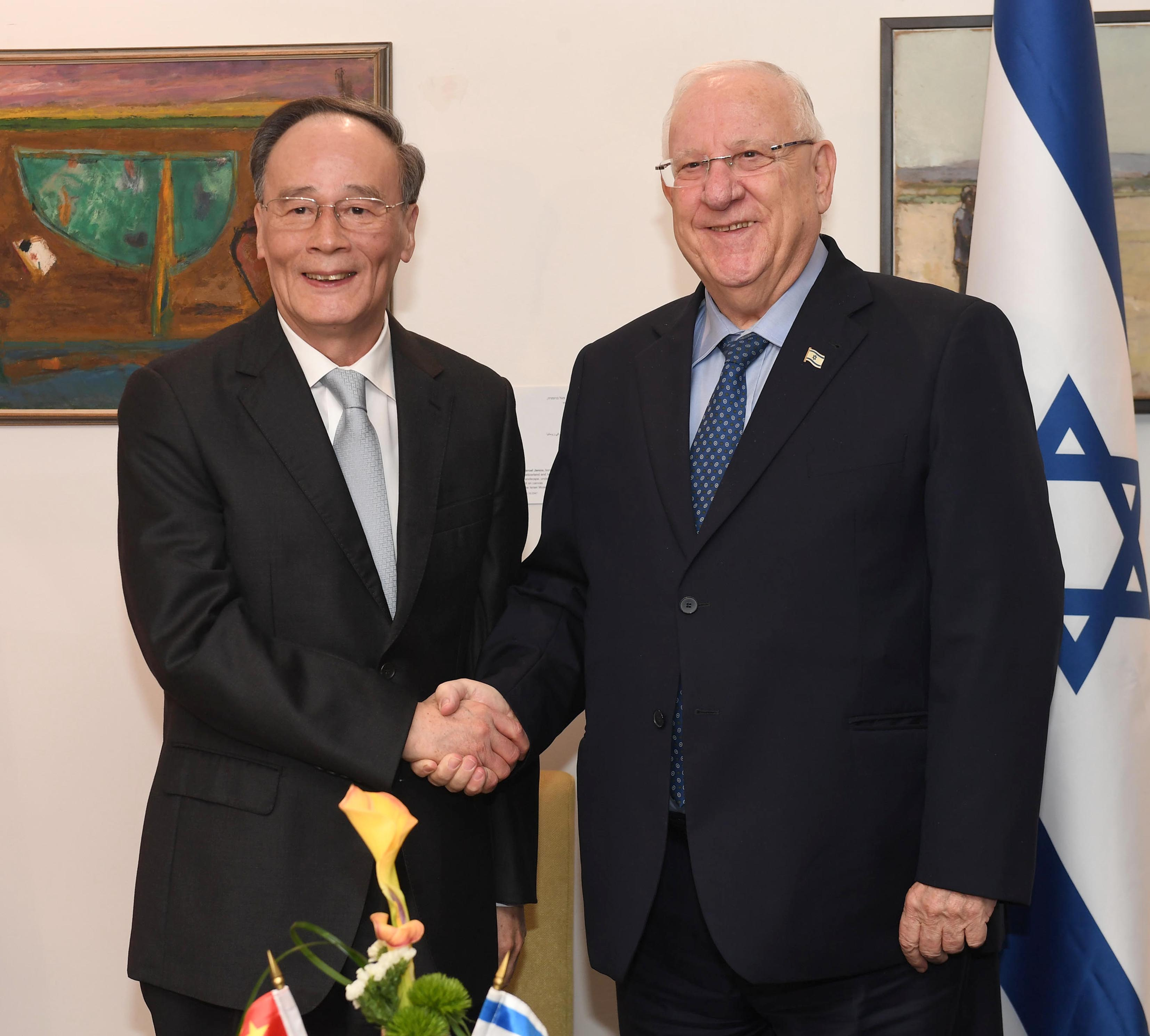 the President of Israel, Reuven Rivlin, in a meeting with Chinese Vice President, Wang Qishan, who is visiting Israel for the first time. Tuesday, October 23, 2018. Photo Credit Mark Neiman / GPO.